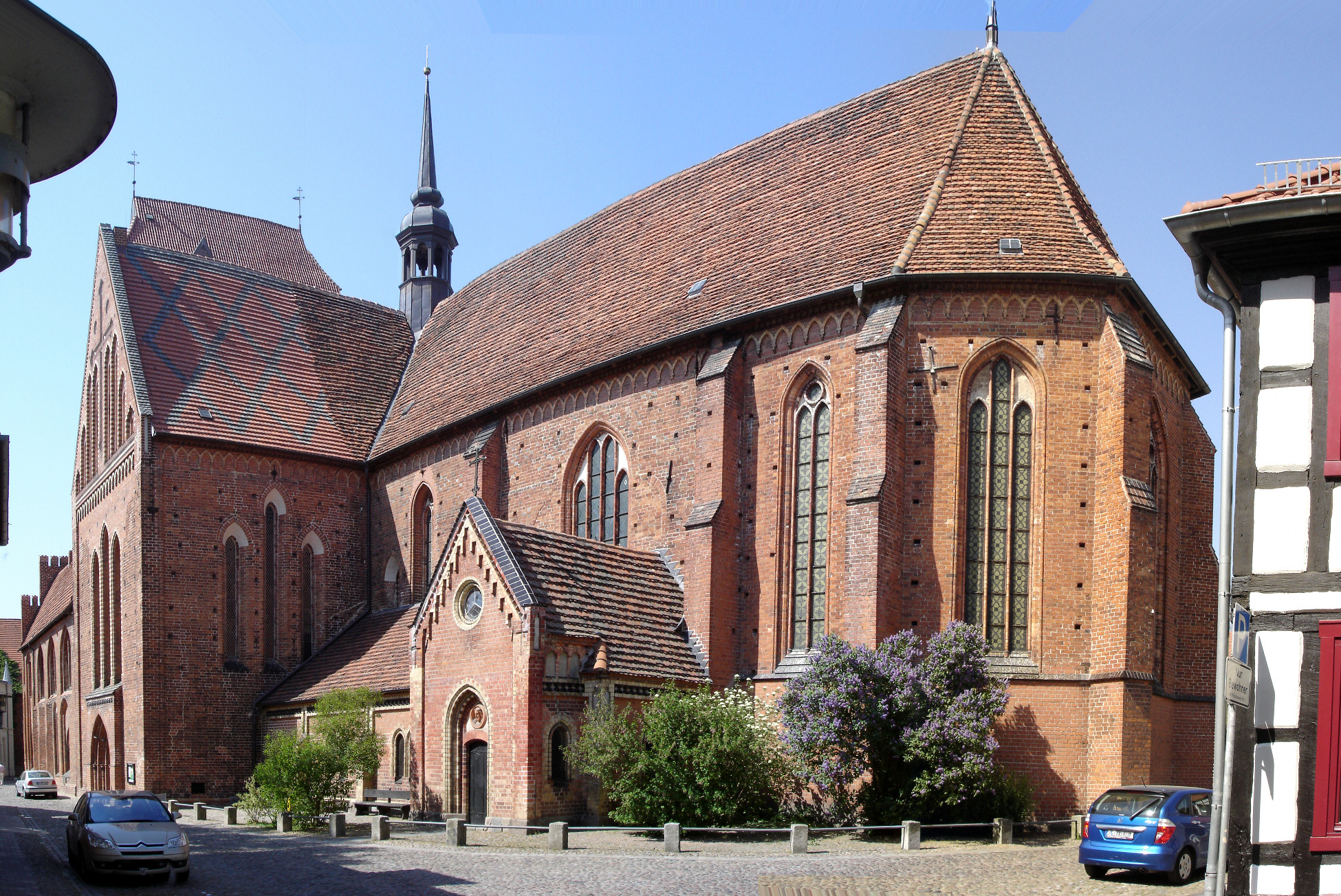 Dom Güstrow / cathedral in Güstrow